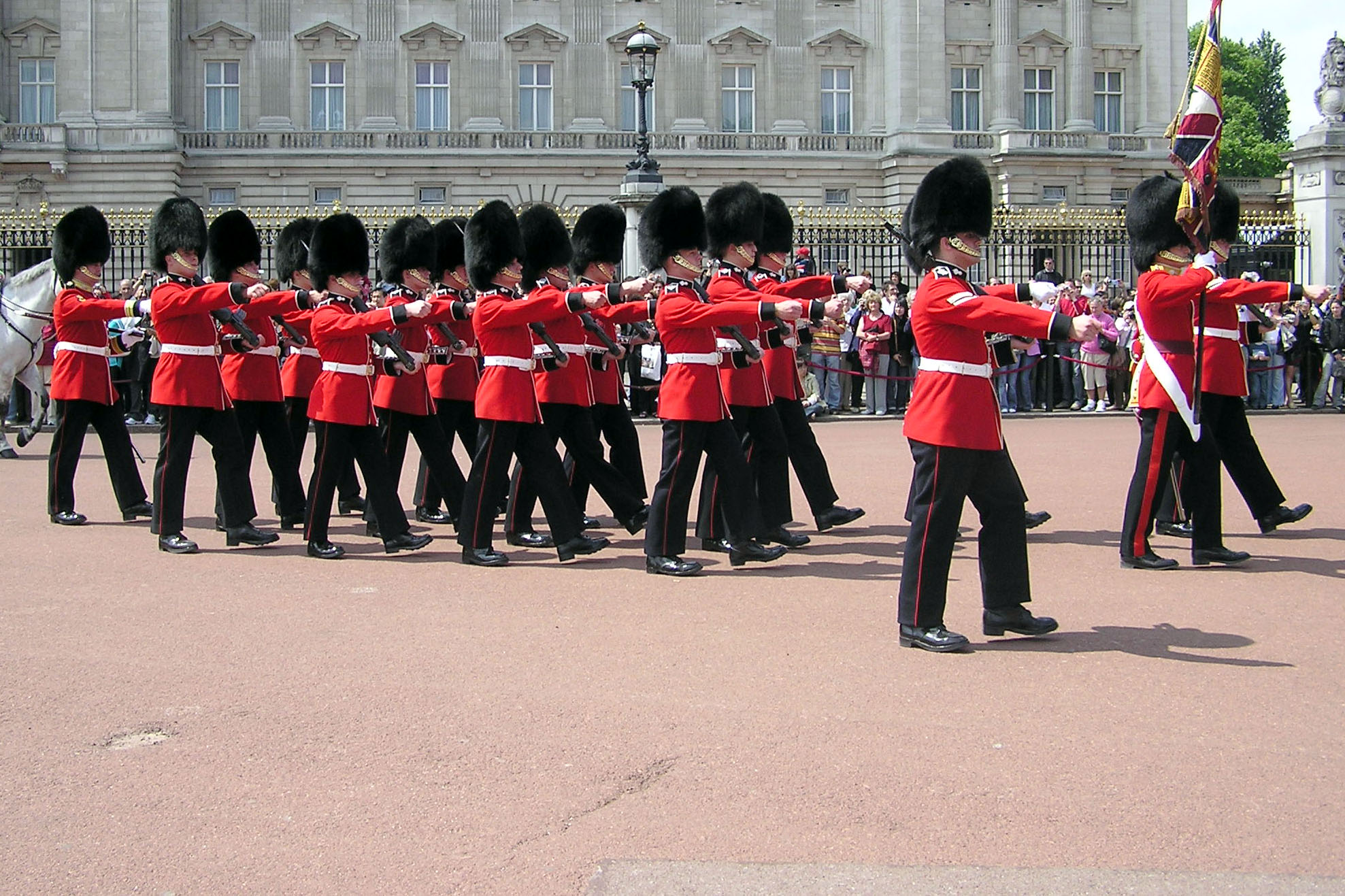 Soldiers of the Grenadier Guards march out of Buckingham Palace (London, England) at the end of the Changing of the Guard ceremony.